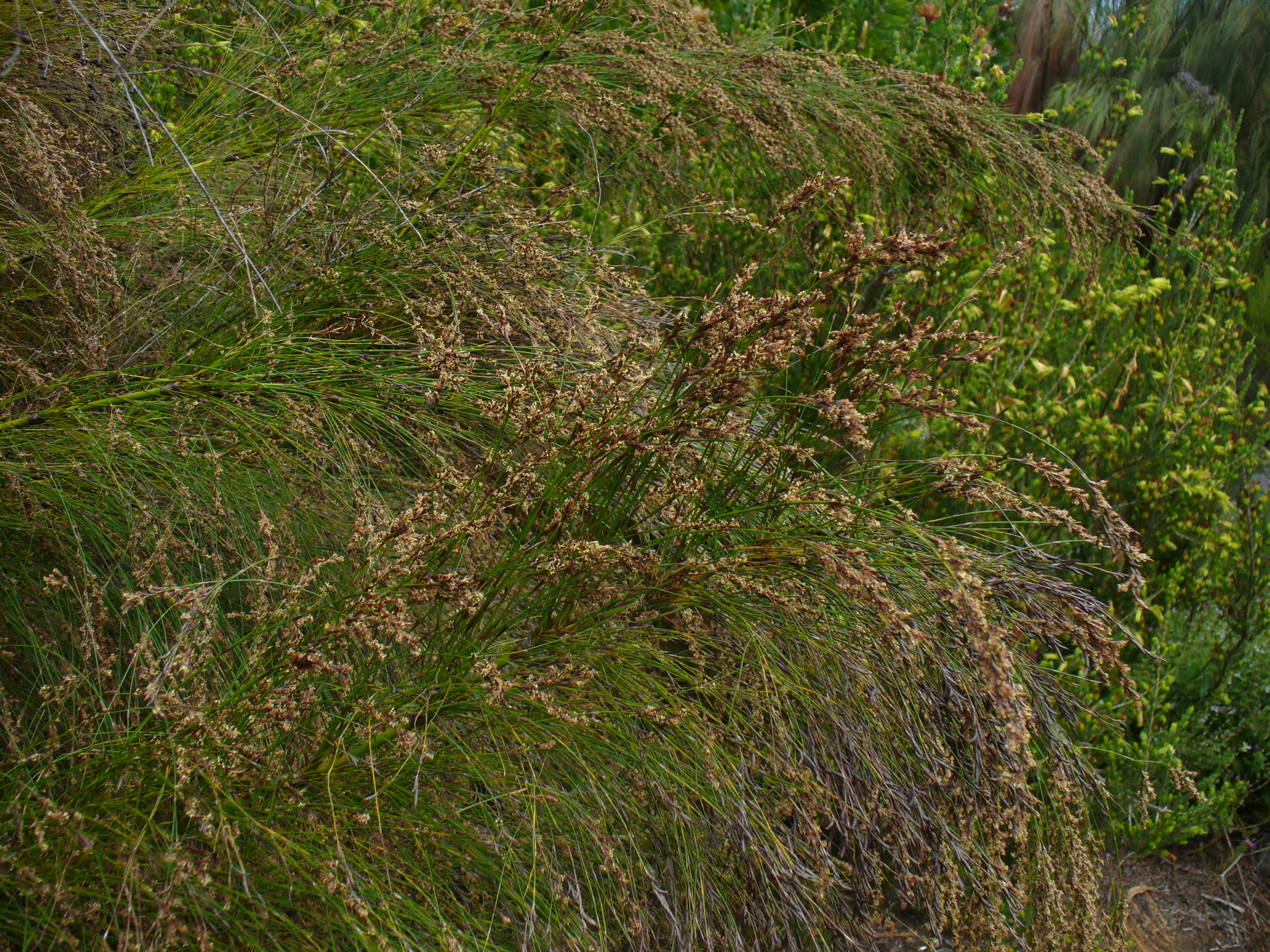 Ischyrolepis subverticillata